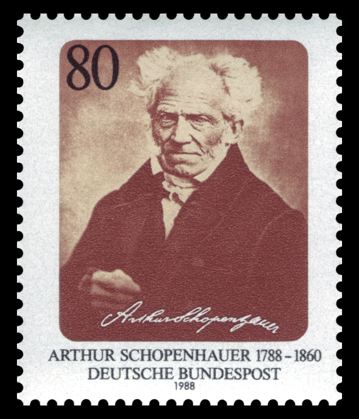 200th day of birth of Arthur Schopenhauer (1788—1860)